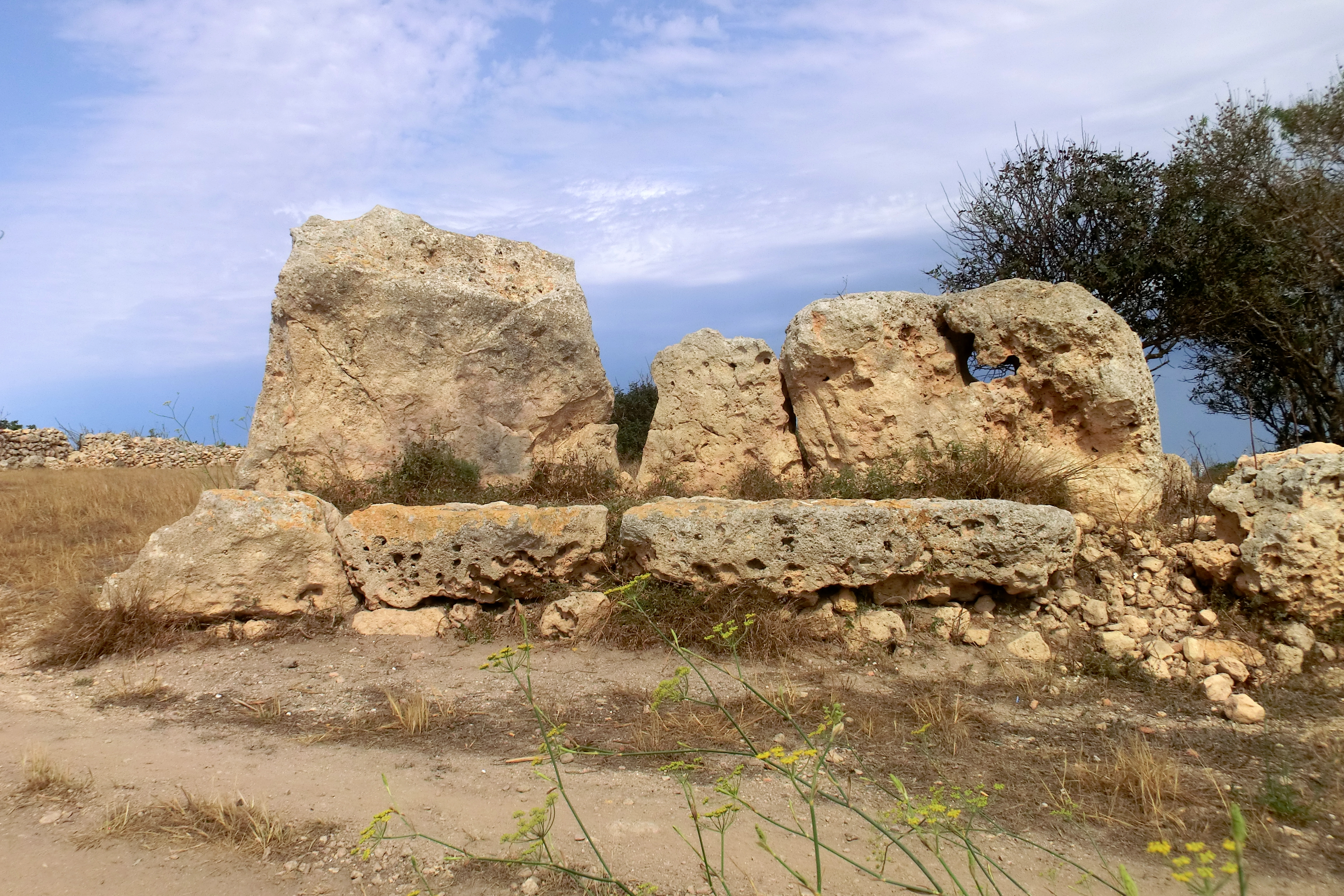 Remains of megalithic Santa Verna Temple, Xagħra, Gozo, Malta.